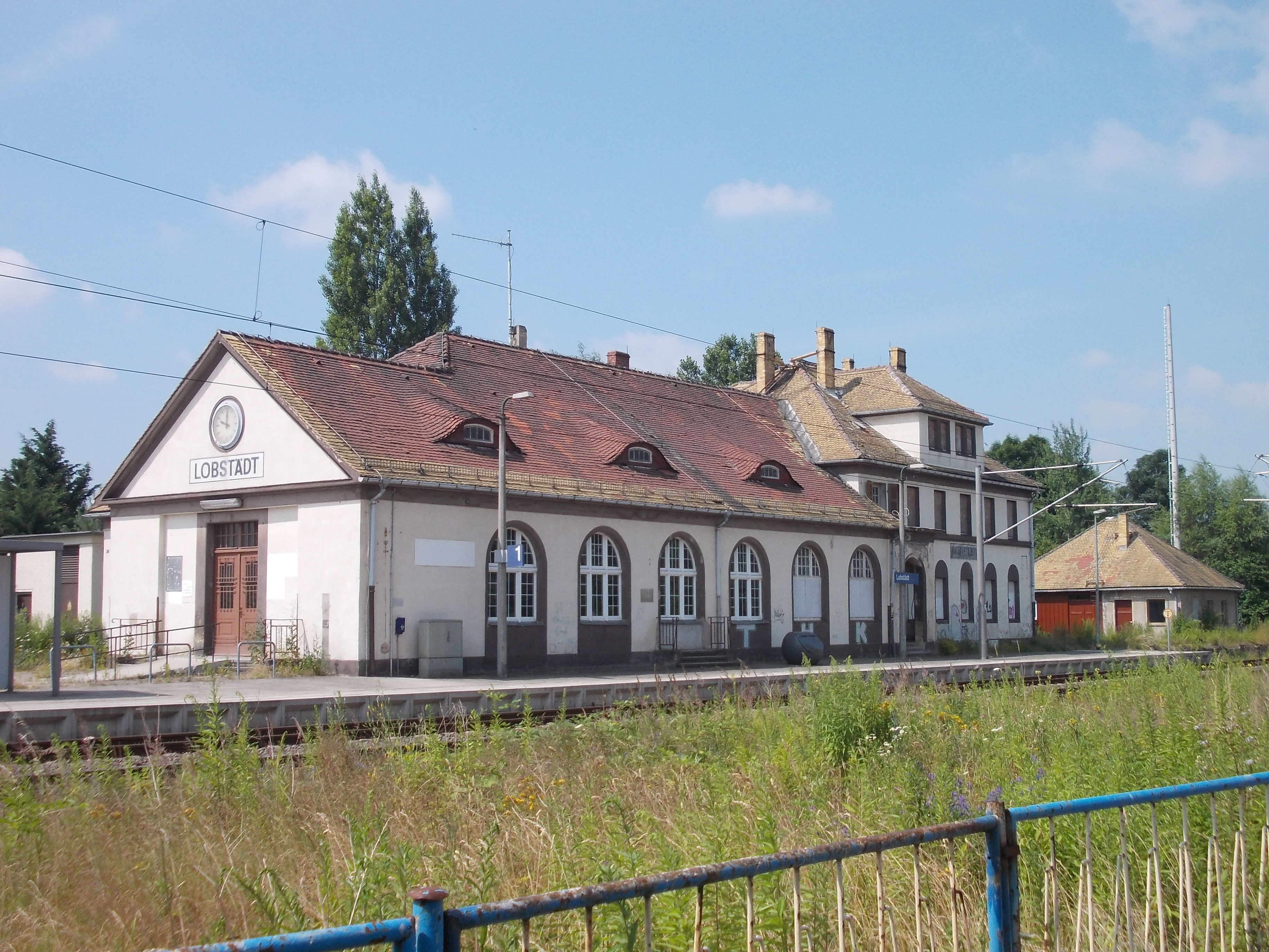 Lobstädt train station (Neukieritzsch, Leipzig district, Saxony)